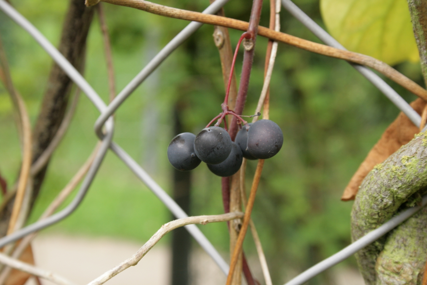 Menispermum dauricum: Fruits (Photo from the Botanical Garden of Aarhus, Denmark)